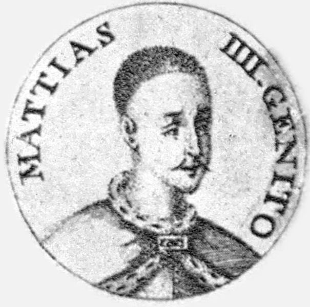 Matei Brâncoveanu, fourth son of Constantin Brâncoveanu, ruler of Țara Românească